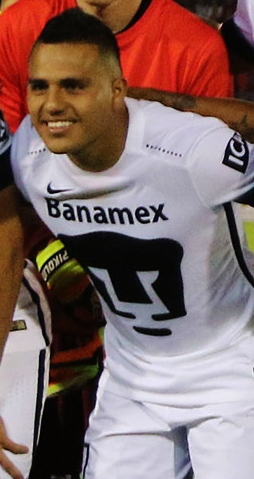 Javier Cortes